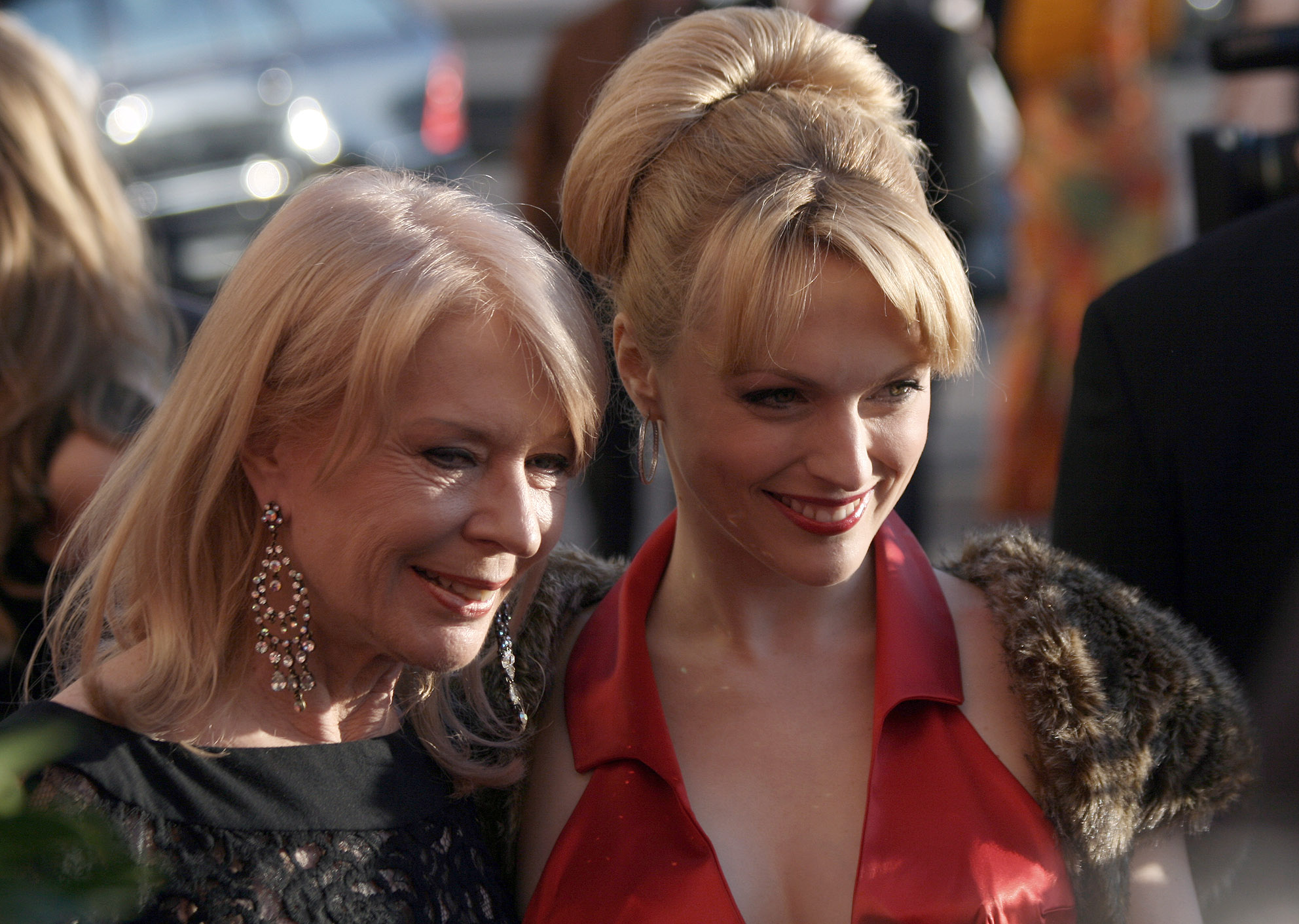 Gerda Rogers and Natalie Alison at the Romy TV awards (Hofburg Imperial Palace in Vienna)